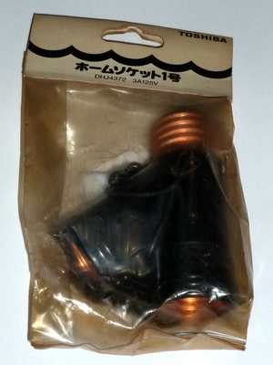 Toshiba DHJ4372 Home Socket No.1